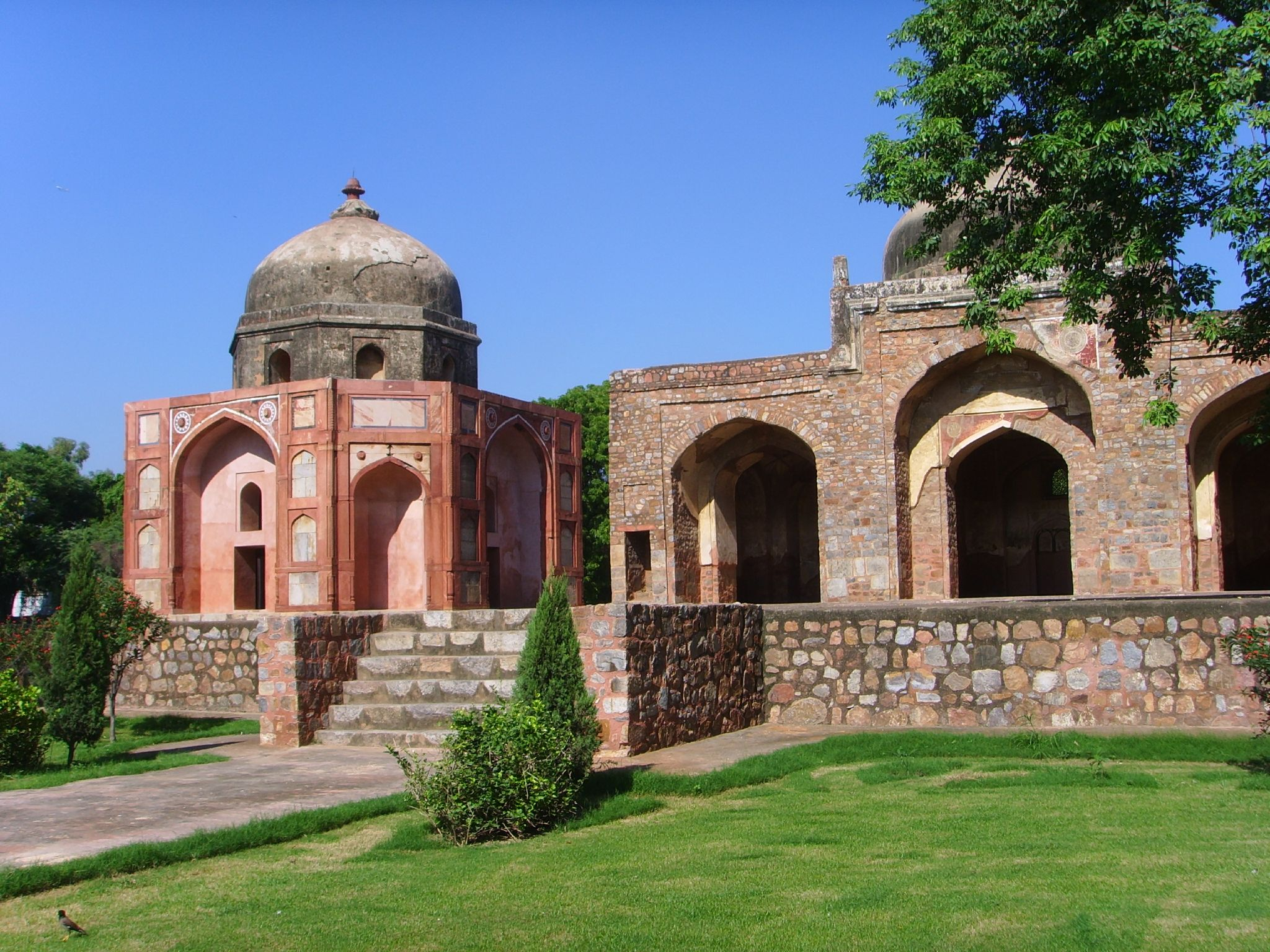 Afsarwala tomb, adjoining the Afsarwala mosque, near the Humayun's tomb. Delhi.